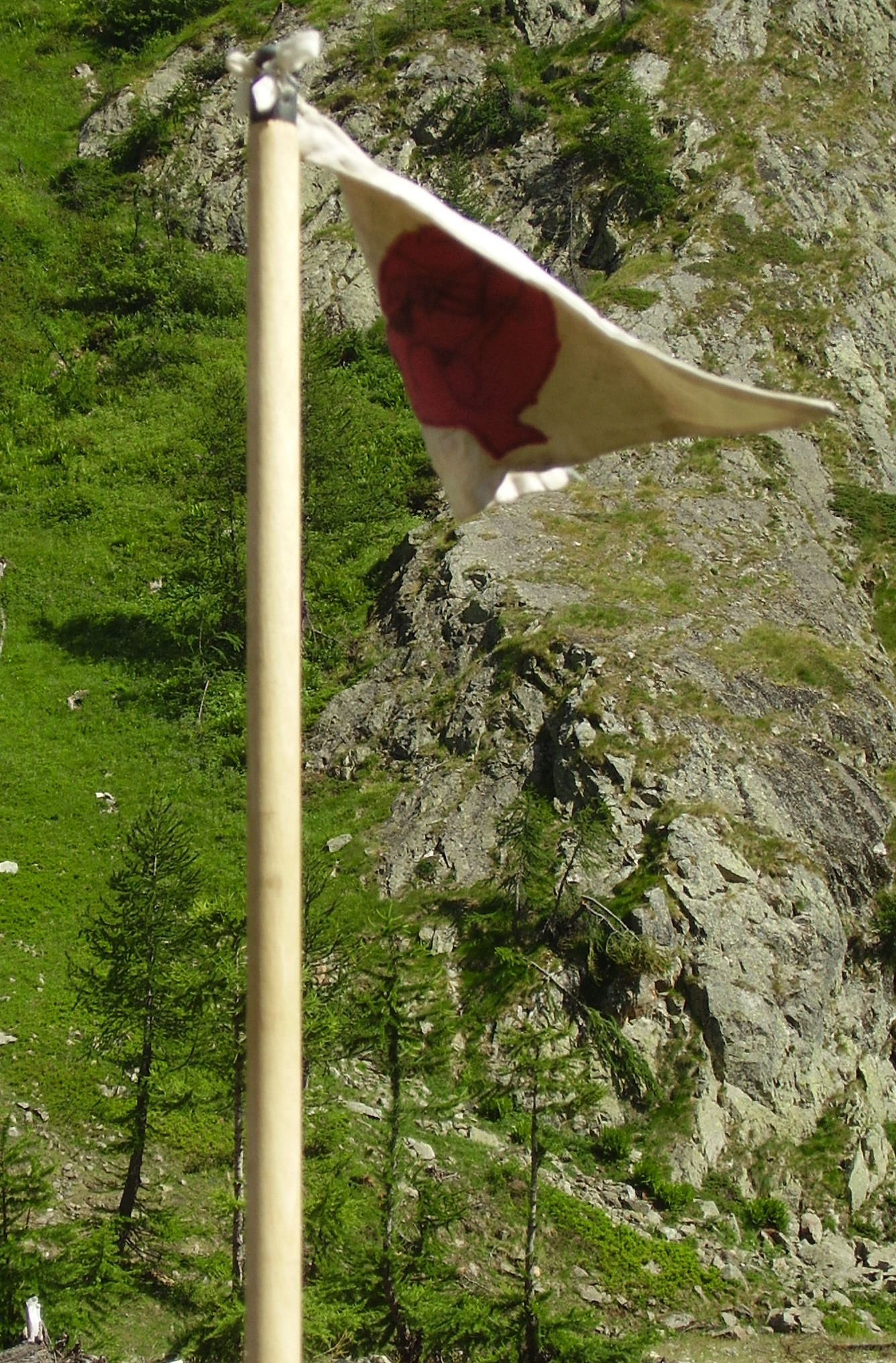 Scout patrol flag of an Italian Scout patrol (AGESCI)